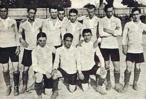 Jewish club Hasmonea Lwów (now Lviv)